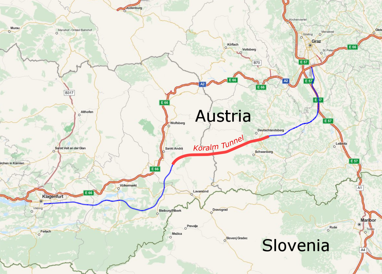 Track (in blue) and Tunnel (in red) of the Koralm Railway between Graz and Klagenfurt, Austria. Currently under construction.